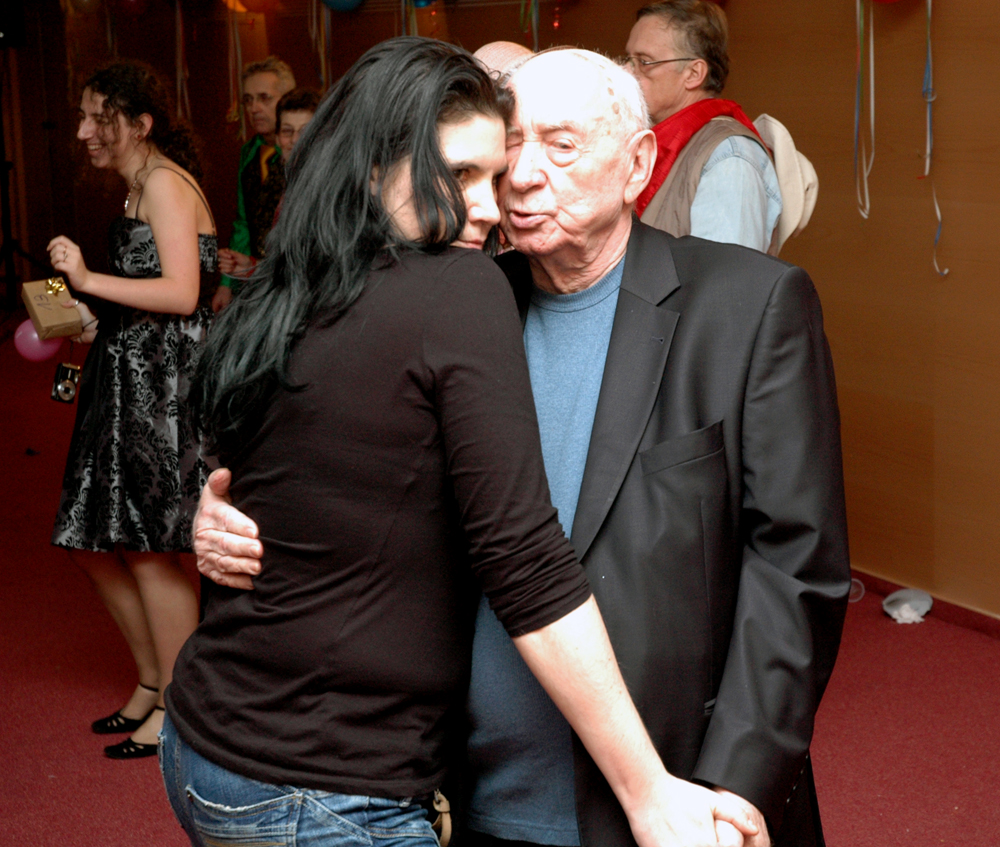 Szymon Szurmiej - the director of the Jewish Theatre in Warszawa during the Purim party in March 2009.